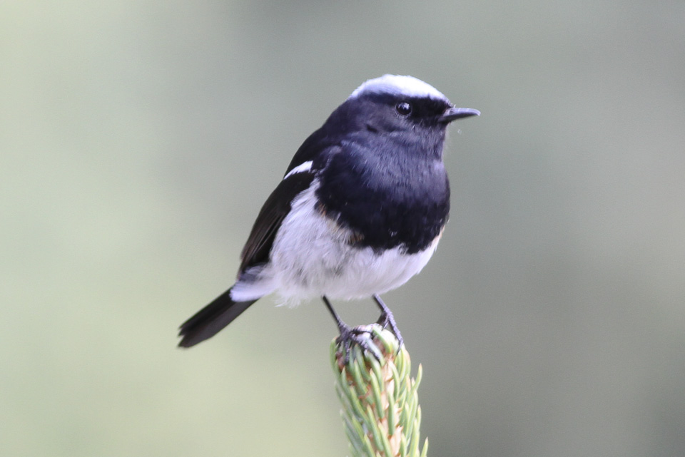 Blue-capped Redstart Phoenicurus coeruleocephala, male. Tien Shan Observatory, Almaty.